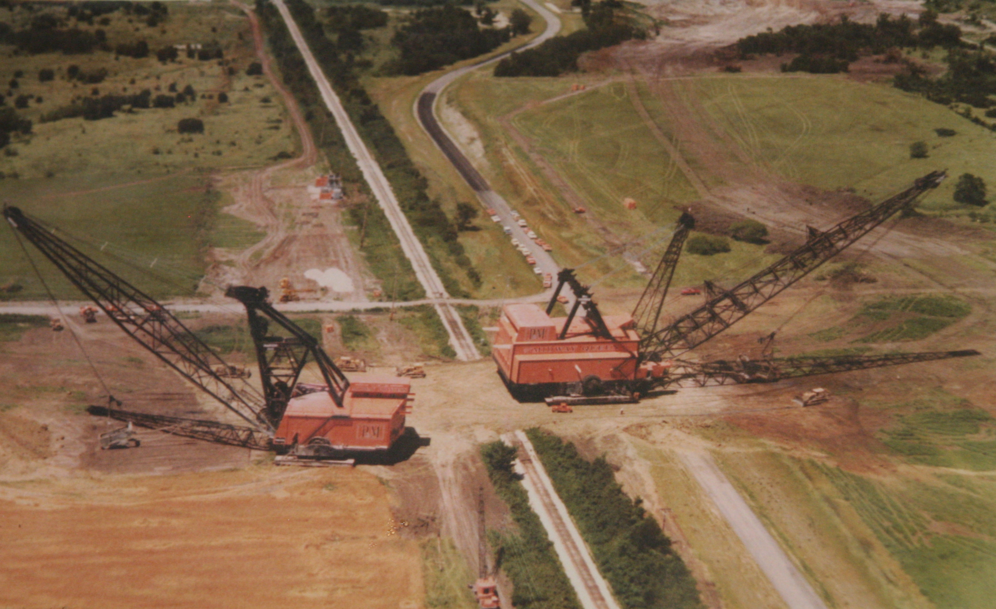 Two of the large dredge machines used to strip mine coal near Hume, Missouri. Photo courtesy Scott Clark via Flickr.